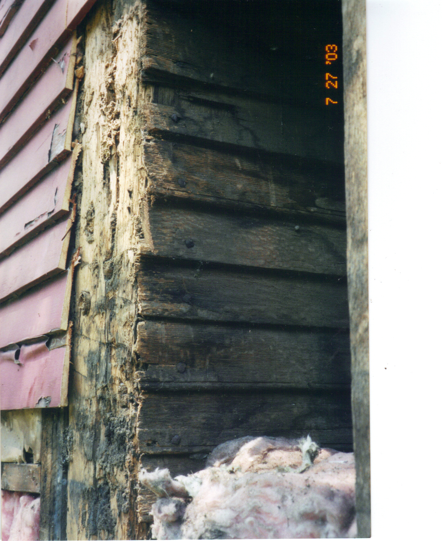 Image of circa 1670-1690 Ephraim Hawley House Trumbull, Connecticut showing close up of beaded oak clapboards in 1840s leanto attic